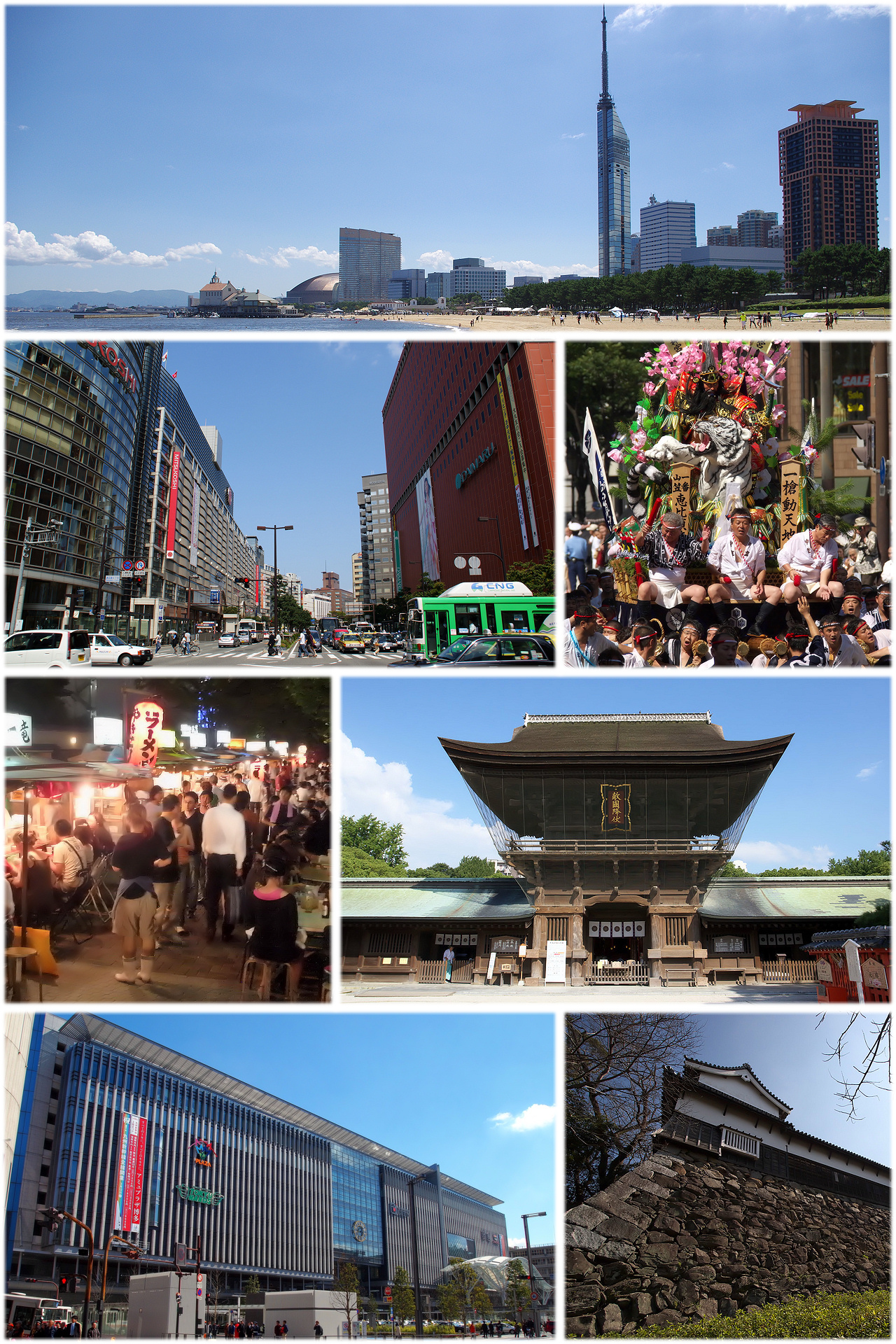 From top to bottom left to right: Momochihama. Watanabe-dori Avenue. Hakata Gion Yamakasa. Yatai in Nakasu. Hakozaki Shrine. JR Hakata City. Tamon turrets of Fukuoka Castle.